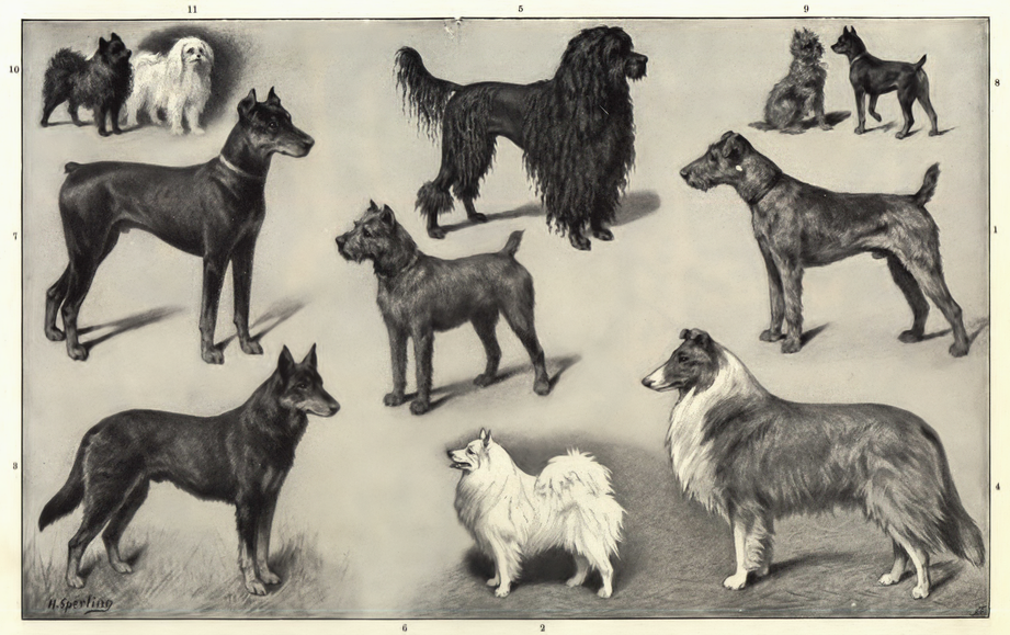 Dog Breeds (names from LA2-NSRW-2-0047.jpg) Airedale Terrier Samoyed (Spitz dog) German Shepherd Dog Rough Collie (Scotch Collie) Corded Poodle (Poodle) Rough-coated Pinscher (Irish Terrier) Doberman Pinscher (Doberman's Terrier) Miniature Pinscher (Smooth Haired Pinscher) Rough-coated Miniature Pinscher (Shagged Pinscher) Pomeranian (Dwarf Spitz) Maltese (Maltese dog)